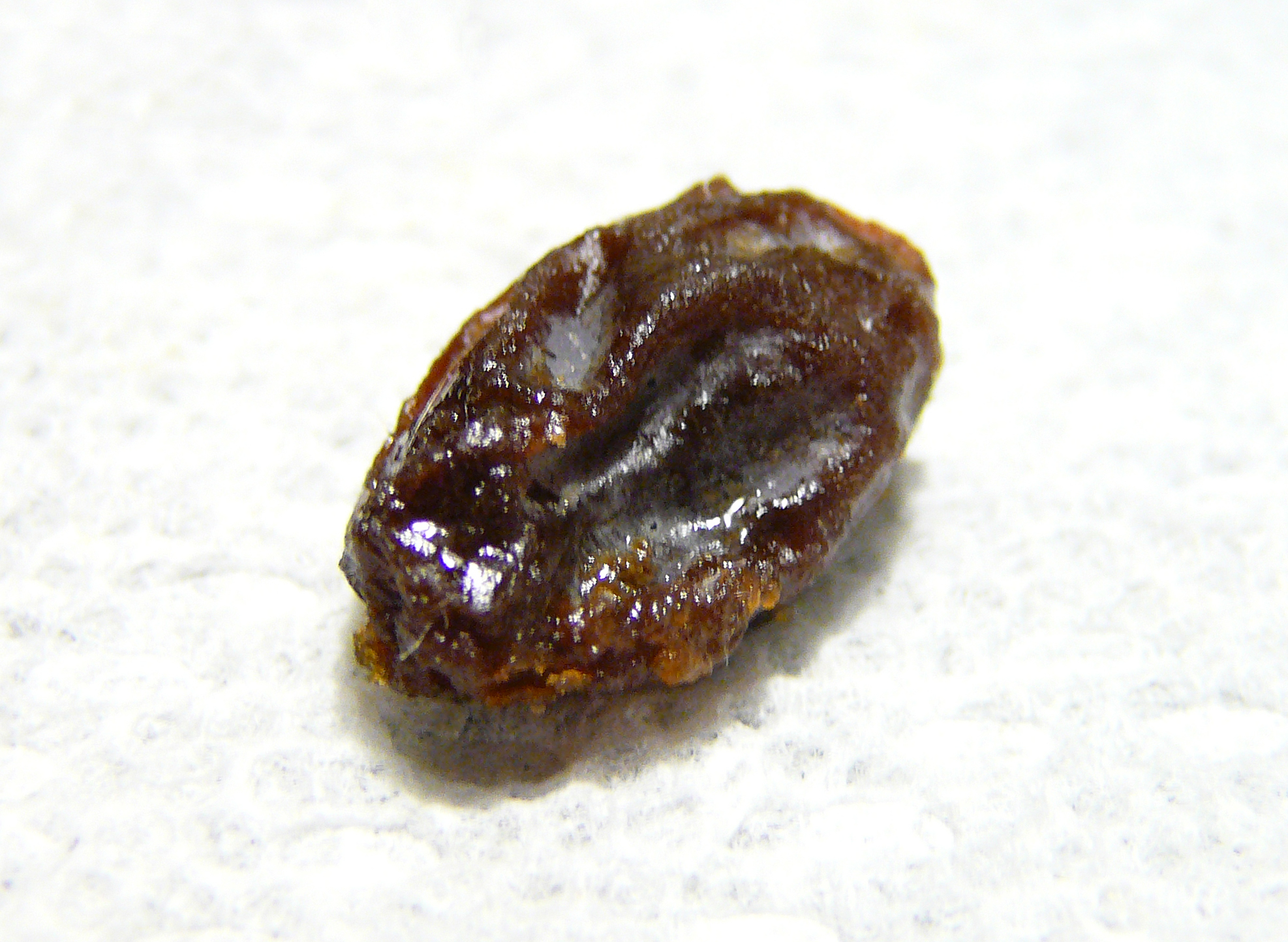 Single raisin (a dried grape)